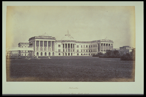 Rajbahavan or Government House Calcutta